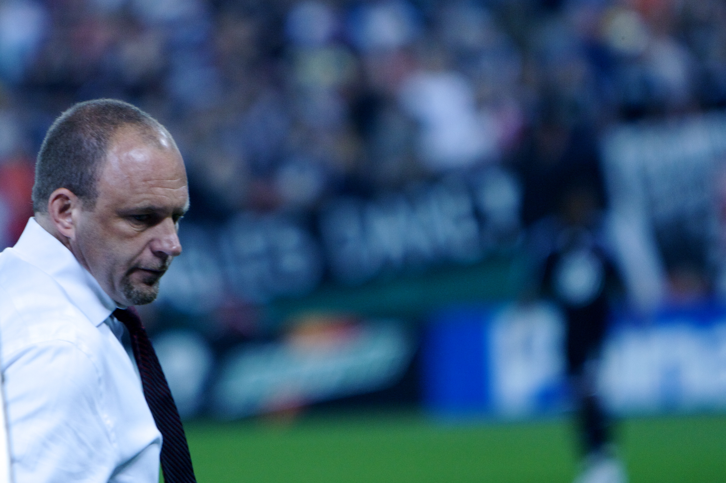 DC United took on the Chicago Fire at RFK stadium on May 8, 2008. The fire beat the home team 2-0 - DC United Head Coach Tom Soehn looks away as his side slips up again. (Wikinews)